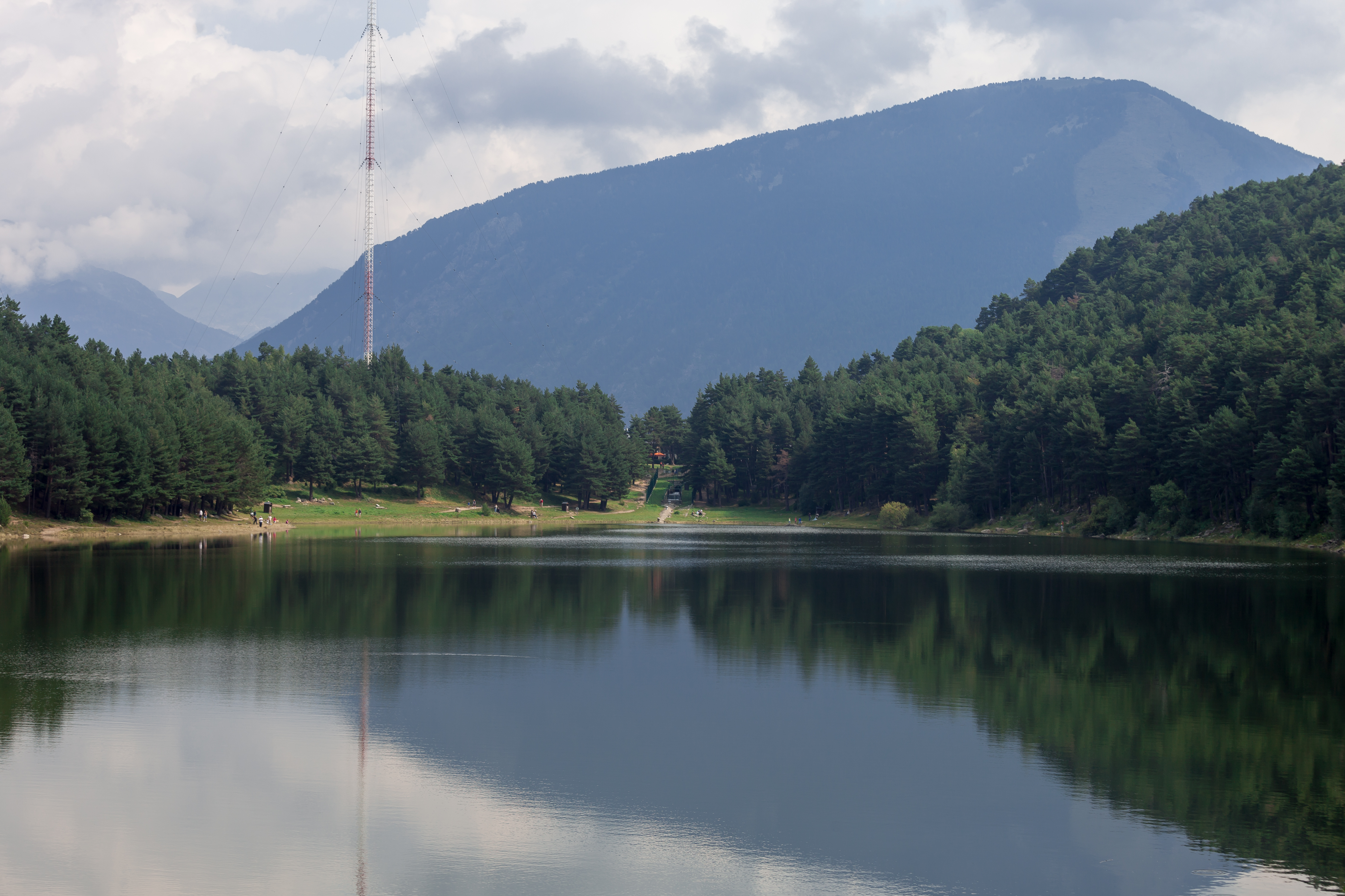 Engolasters lake, located in the village Engolasters in Escaldes (Andorra)